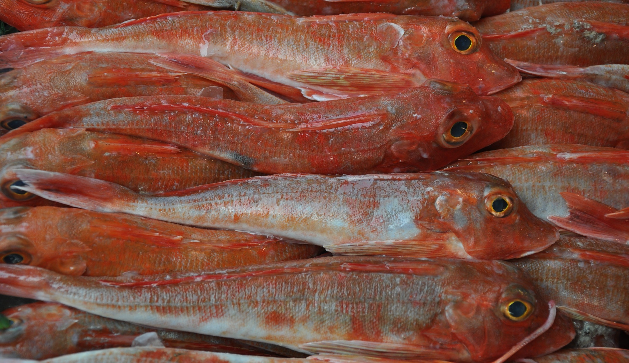 Tub gurnard (Chelidonichthys lucerna).